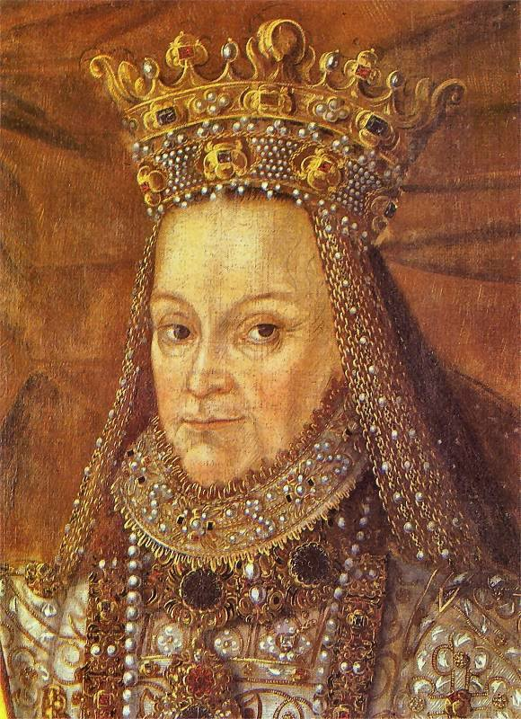 Portrait of Anna Jagiellon (1523-1596) (detail)